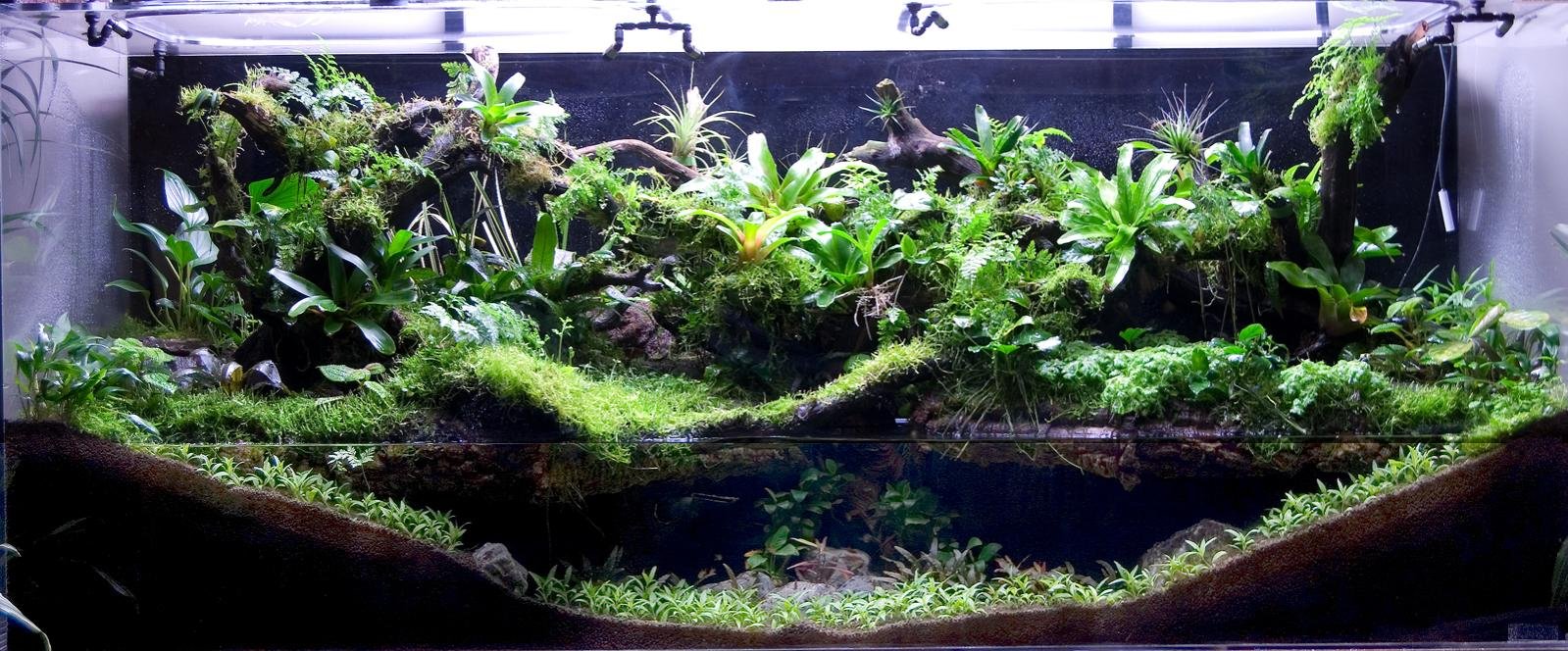 The designers/aquascapers of these layouts often start out with aquatic plants growing submerged and then allow them to grow emersed outside of an aquarium. The intended goal is to create a slice of nature that is more indicative of what you would find in a riparian environment, like at the edge of a waterway in the Amazon jungle.